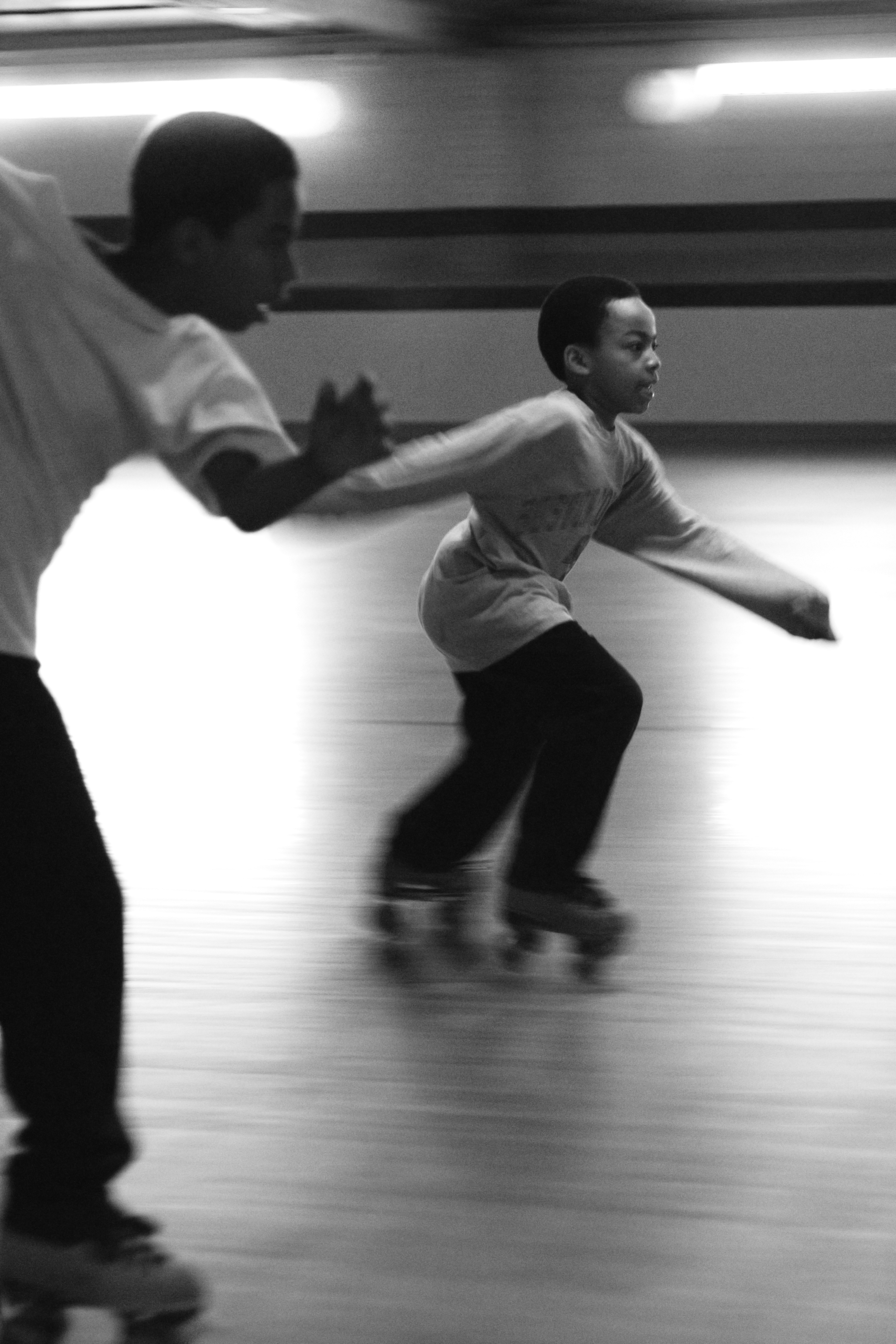 Boys rollerskating. "i took a lot of panning shots at the rink yesterday, and almost none of them turned out (which i guess is normal). it was my first attempt at something like this, and i think the dark rink made life a lot more difficult... all these shots are overwhelmed by high ISO noise. this one is probably my favorite of the bunch."